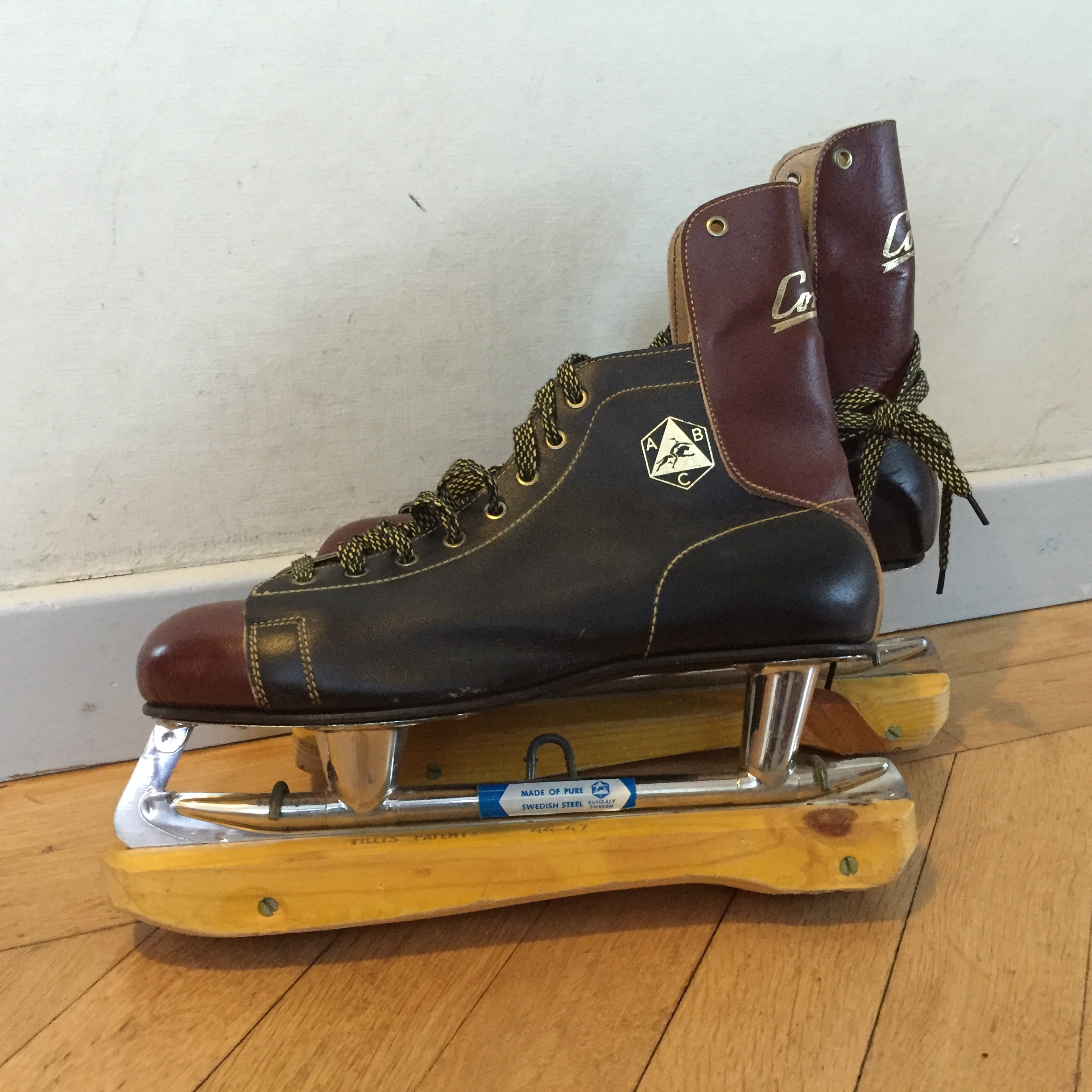 A pair of skates from ABC-fabrikerna i Kungälv.